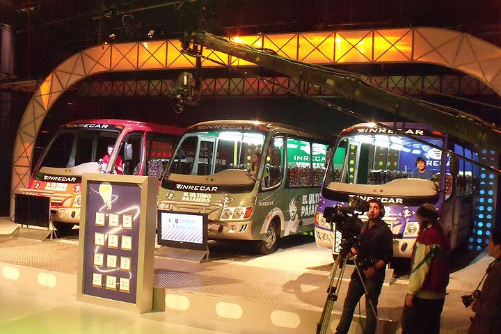 Buses are shown the Red, Green and Blue from the TV show "El Último Pasajero" TVN.